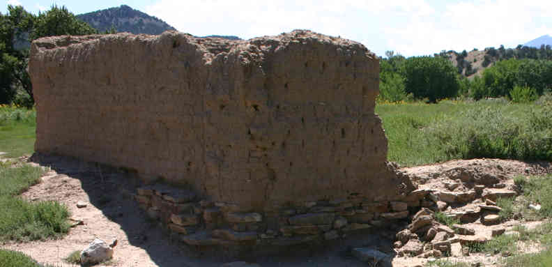 Adobe ruins at Badito, Colorado. Note that stone foundation